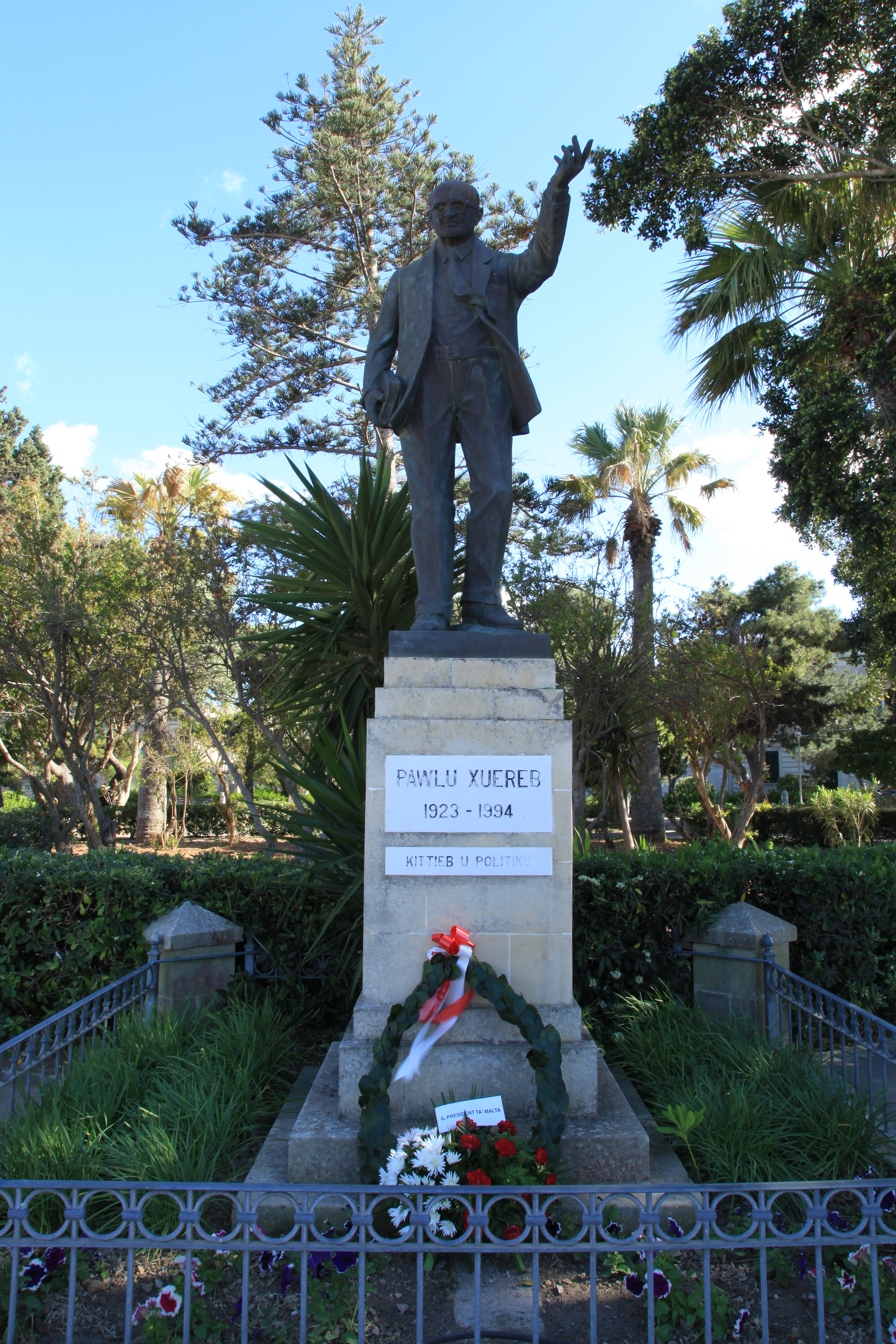 Memorial to Paul Xuereb by Anton Agius, Gnien Howard in Mdina, Malta